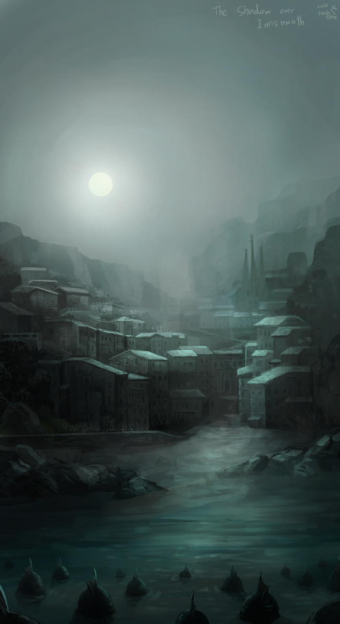 Mushstone's artwork based on H. P. Lovecraft's story "The Shadow over Innsmouth".